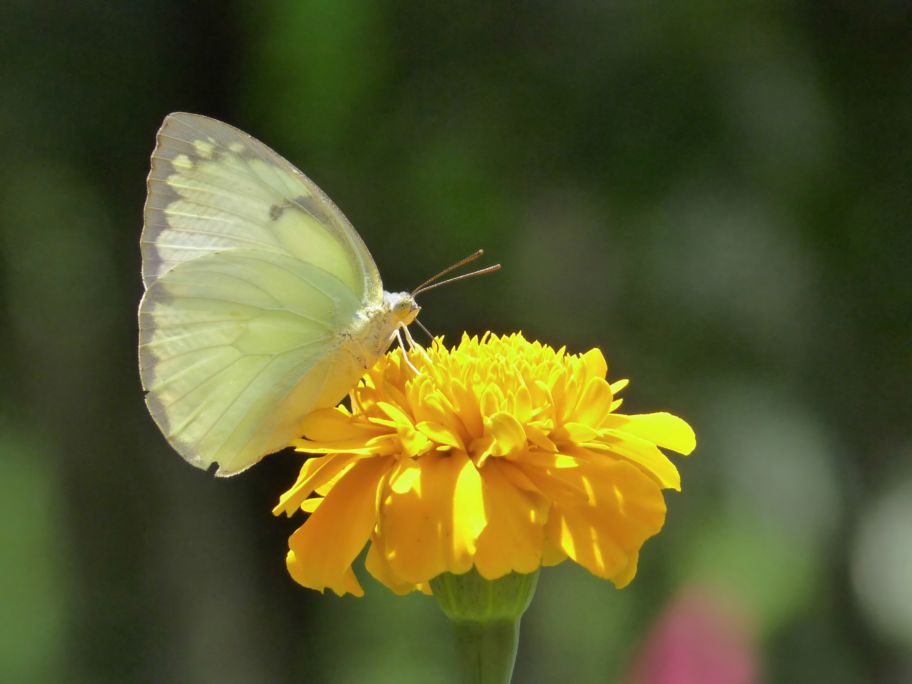 Catopsilia pomona 'crocale' female f. jugurtha The Common Emigrant or Lemon Emigrant (Catopsilia pomona) is a medium sized pierid butterfly found in Asia and parts of Australia. The species gets its name from its habit of migration. This is a very variable species with many named forms. There are two male forms, f. alcmeone and f. hilaria, and five female forms, f. pomona, f. crocale, f, jugurtha, f. catilla and f. nivescens. Of theses, f. alcmeone is the commonest male form, and f. crocale is the commonest female form for most of the year. However, during the months of May- July, f. jugurtha appears to be more common. The remaining forms are present for most of the year, but in lesser quantities. The 'crocale' forms - antennae black above and underside of wings without silvery spots at the cell-ends. Upperside creamy white wings with base of wings lemon-yellow. Forewing apex margined thinly with black - male, form alcmeone (Cramer 1777). Upperside creamy white wings with costal margin of forewing and both termens bordered with black. There is also black submarginal markings, a black cell end spot on the forewing and wing bases are tinged with yellow - female, form jugurtha (Cramer 1777). Both wings have broad black distal borders bearing a series of large, diffuse, interneural whitish spots - female, form crocale (Cramer 1775). The 'pomona' forms - antennae red above and underside of wings with silvery spots outlined in red at cell-ends. Resembles male form alcmeone. However, the lemon-yellow base is more restricted especially absent in the hindwing tornal area - male, form hilaria (Stoll 1781). Pale yellow wings with black bordering and reduced markings - female, form pomona (Fabricius 1775). Similar to form pomona but with white wings - female, form nivescens (Fruhstorfer 1910). Red blotches on the underside - female, form catilla (Cramer 1779). Taken at Kadavoor, Kerala, India.